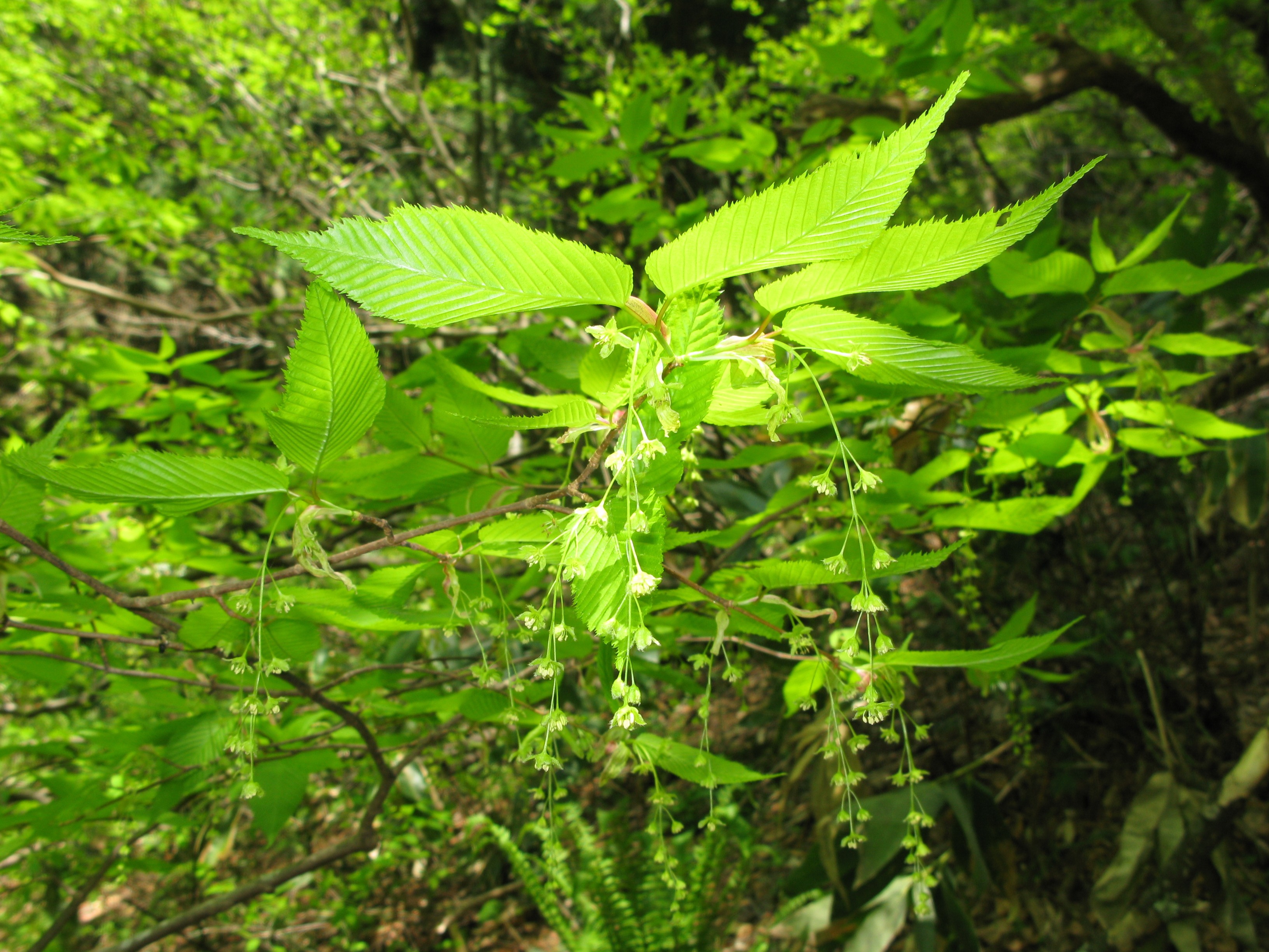 Acer carpinifolium, Aizu area, Fukushima pref., Japan